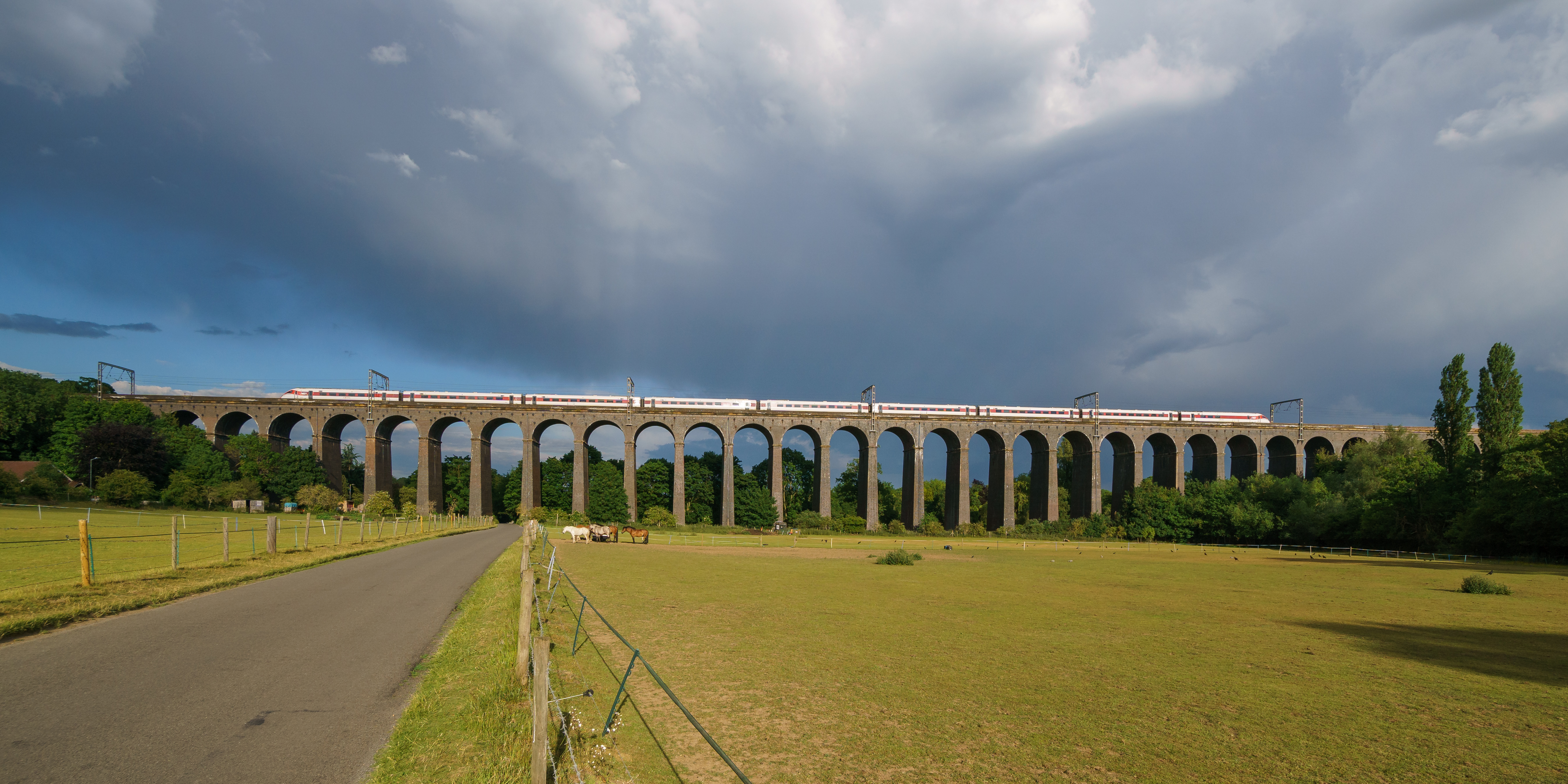 The Welwyn Viaduct from Digswell Park Road. An LNER train passes overhead. Twenty-nine of the forty arches are visible.